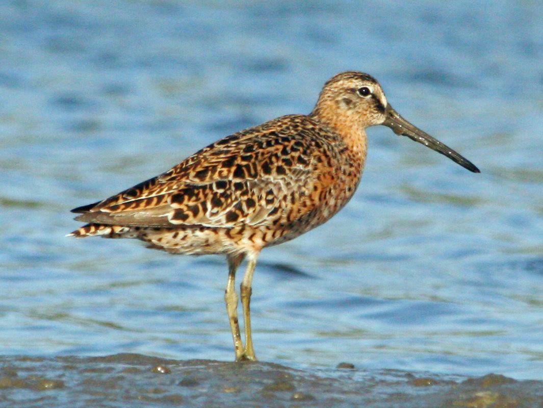 Short-billed Dowitcher(Limnodromus griseus) in breeding plumage - Sunset Beach, North Carolina